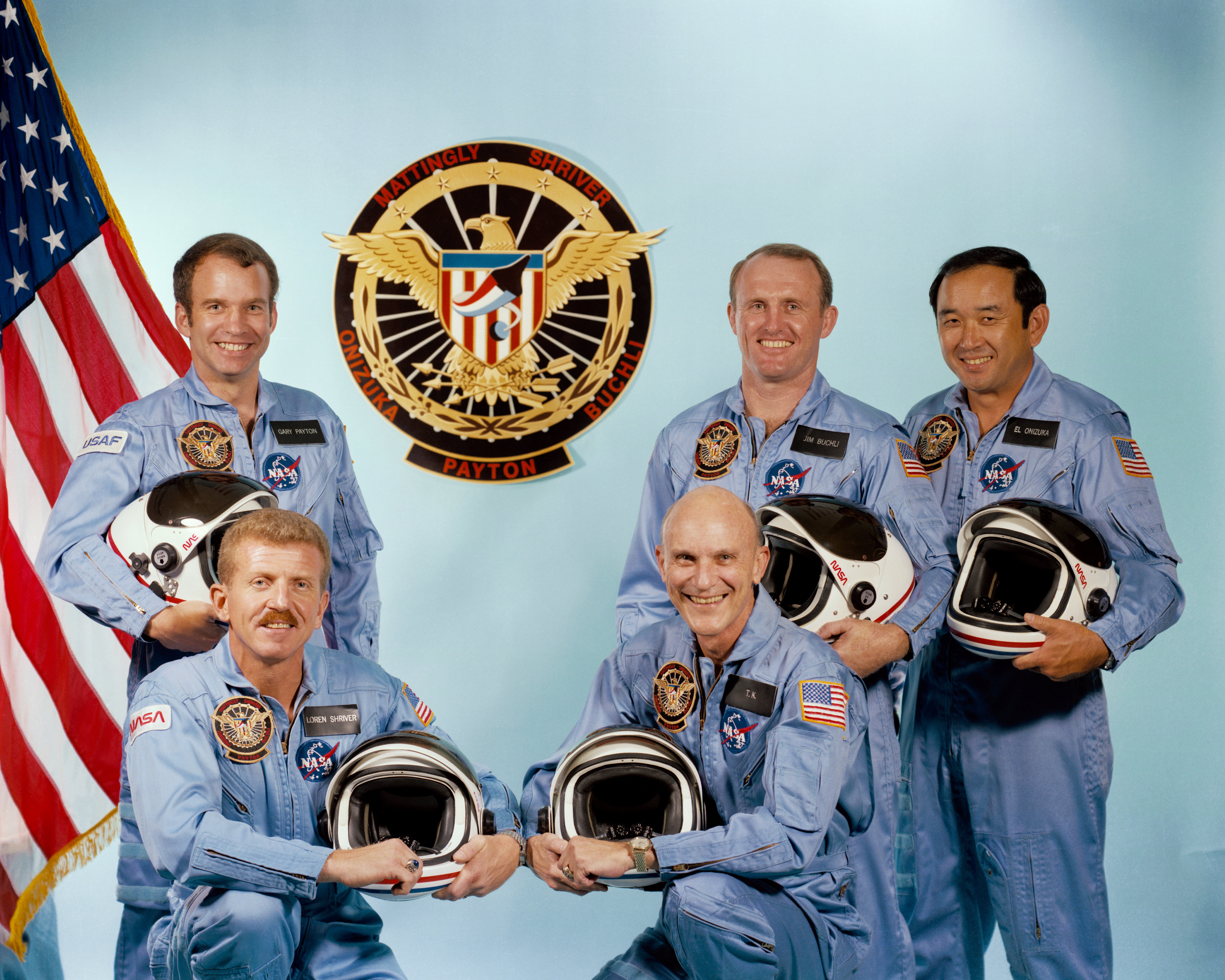 The crew assigned to the STS-51C mission included (kneeling in front left to right) Loren J. Schriver, pilot; and Thomas K. Mattingly, II, commander. Standing, left to right, are Gary E. Payton, payload specialist; and mission specialists James F. Buchli, and Ellison L. Onizuka. Launched aboard the Space Shuttle Discovery on January 24, 1985 at 2:50:00 pm (EST), the STS-51C was the first mission dedicated to the Department of Defense (DOD).